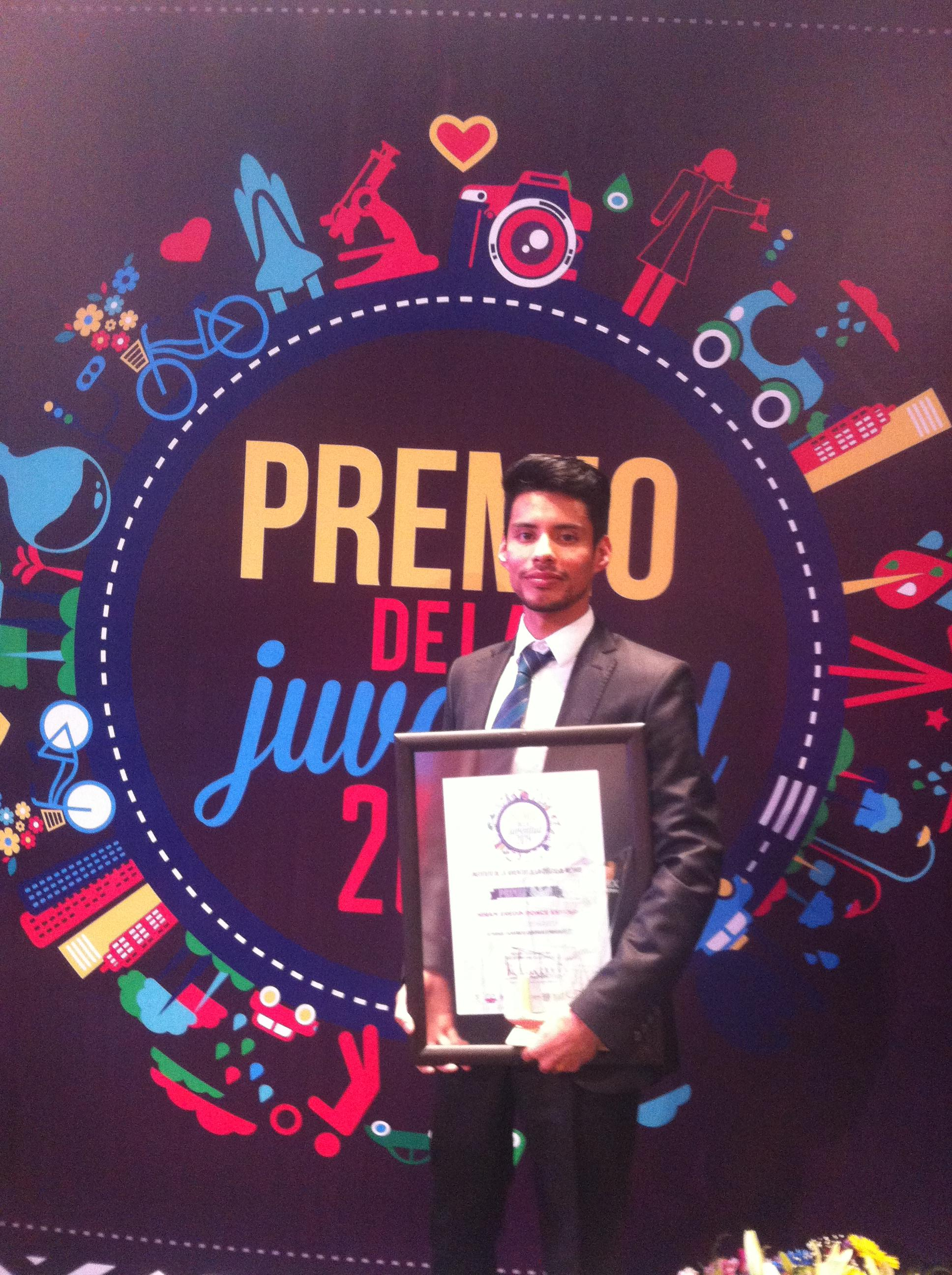 Me receiving the Mexico City's Youth Award 2014